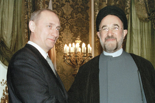 THE GRAND KREMLIN PALACE, MOSCOW. President Putin with Iranian President Mohammad Khatami.